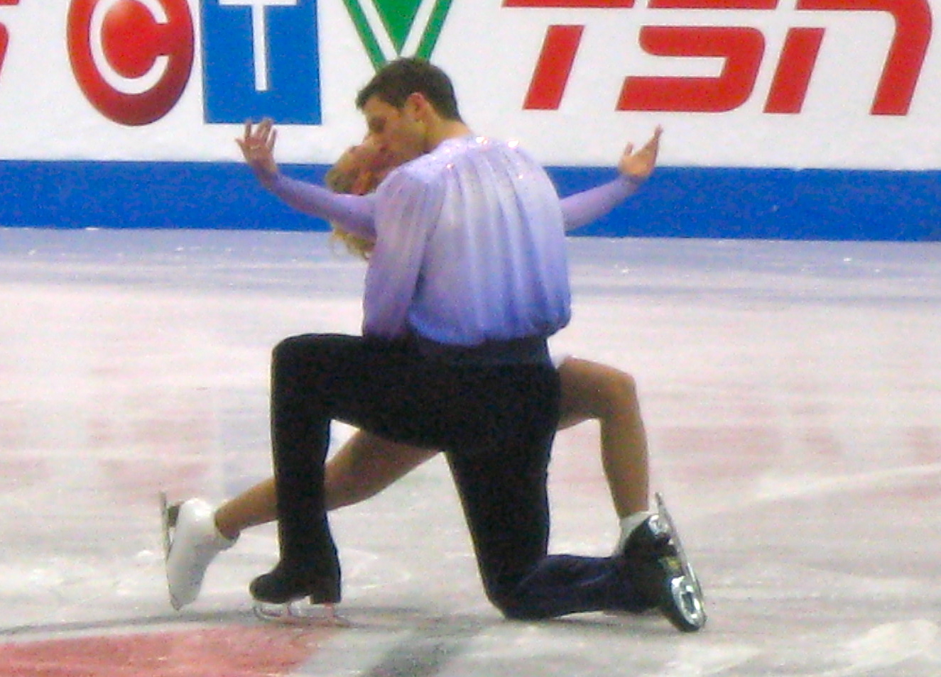 Canadian skaters Kirsten Moore-Towers and Dylan Moscovitch performing their free skate during the 2013 Canadian Figure Skating Championships at the Hershey Centre in Mississauga, Ontario